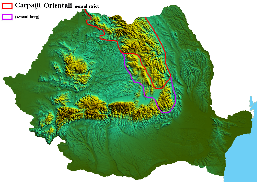 Derivative map since Qyd's map Romania-relief.png ([1]) and Marcussep's map Mapcarpat2.png ([2]), according with Albert Demangeon & Emmanuel de Martonne works ("Recherches sur l'évolution morphologique des Alpes de Transylvanie (Carpates méridionales)", Paris, Delagrave, 1906 and Géographie universelle (dir. Vidal de la Blache, Gallois), vol. IV : "Europe centrale", Paris, Armand Colin, 1930 & 1931